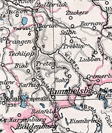 Detail from a map of Pomerania.